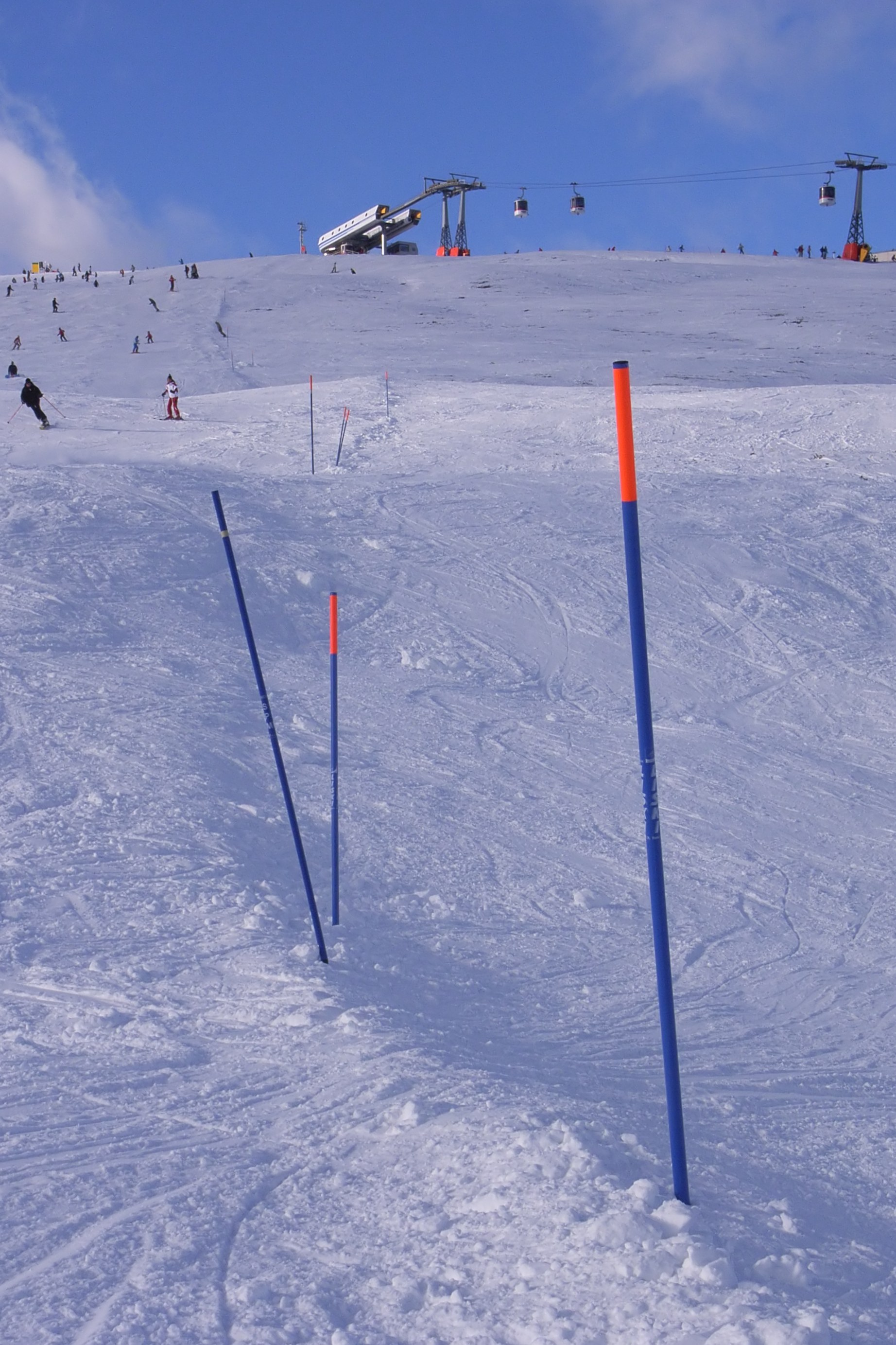 Border markings of an easy (“blue”) ski piste at the Kronplatz southern mountainside (Italy, South Tyrol).